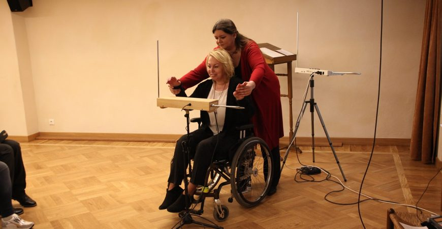 At workshop for MOTUS VITA members at Svētās Ģimenes Māja in Riga